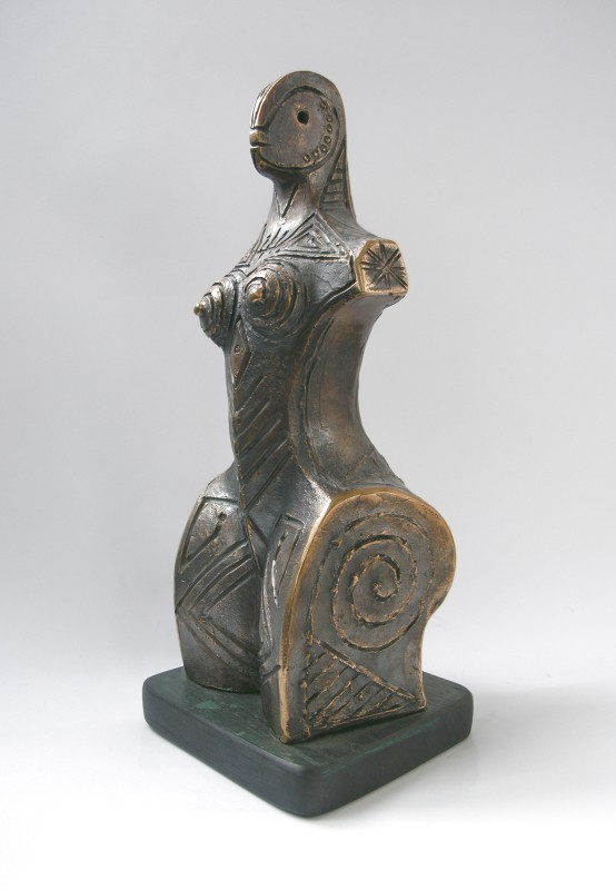 Трипільський торс